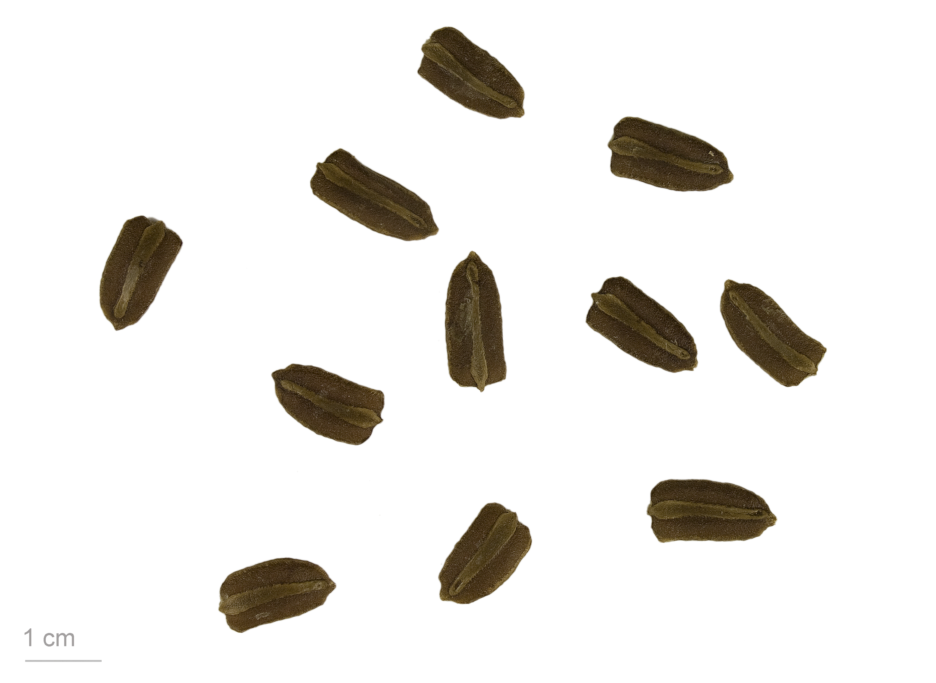 calabash , fruits and seeds